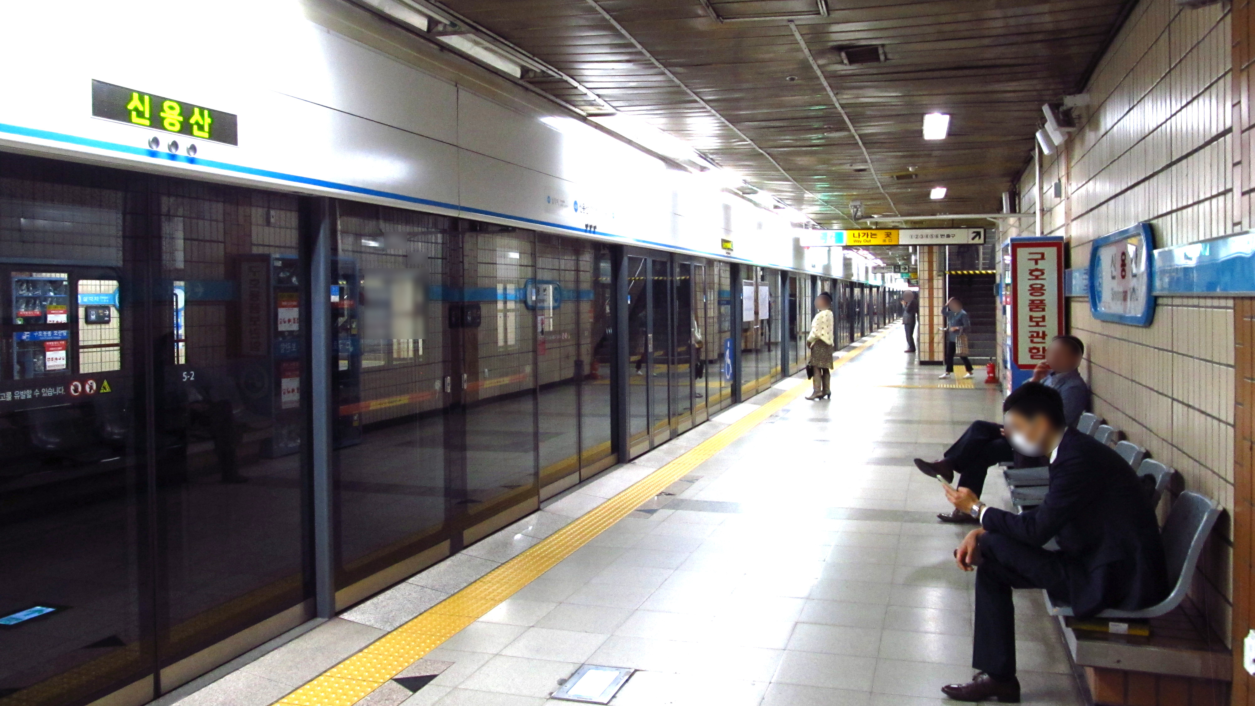 The Namtaeryeong-bound platform at Sinyongsan Station on Seoul Subway Line 4 in Yongsan-gu, Seoul, Republic of Korea(South Korea)